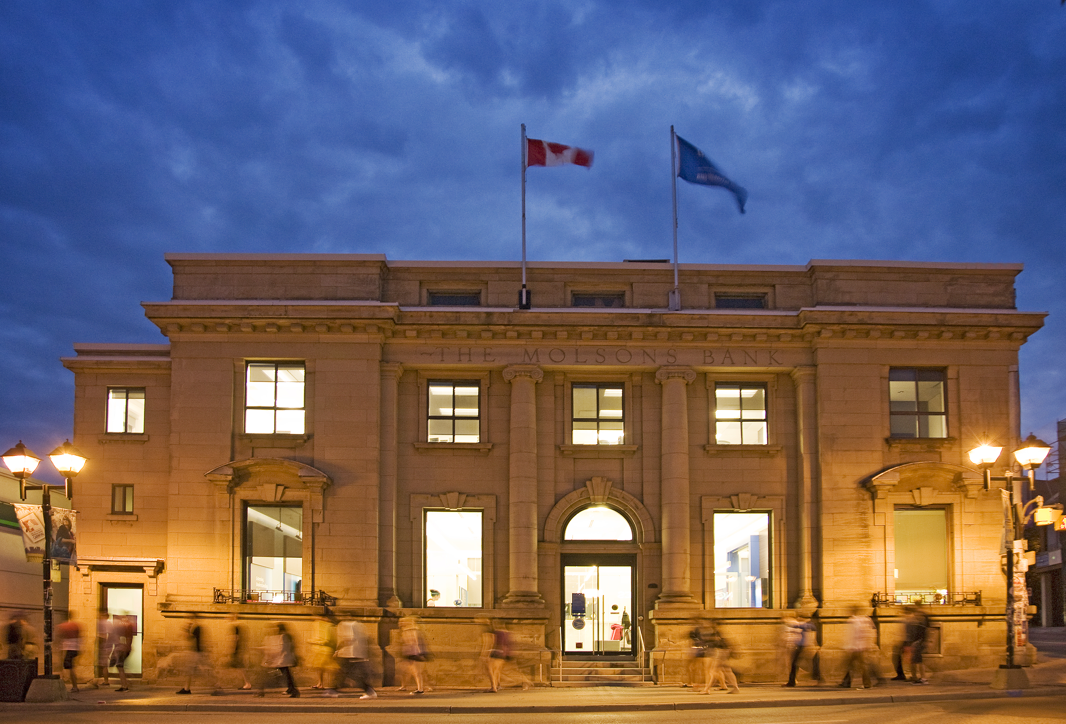 The large grey-stone building was designed in 1914 in the Beaux Arts style by the architects Langley and Howland of Toronto.